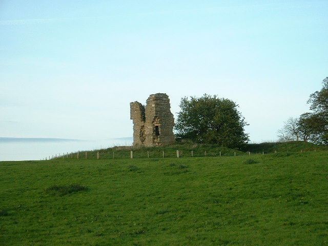 Greenhalgh Castle, Garstang. The Castle was built by the 1st Earl of Derby in 1490, and mostly dismantled in 1650, after being overwhelmed by Oliver Cromwell's forces in 1645